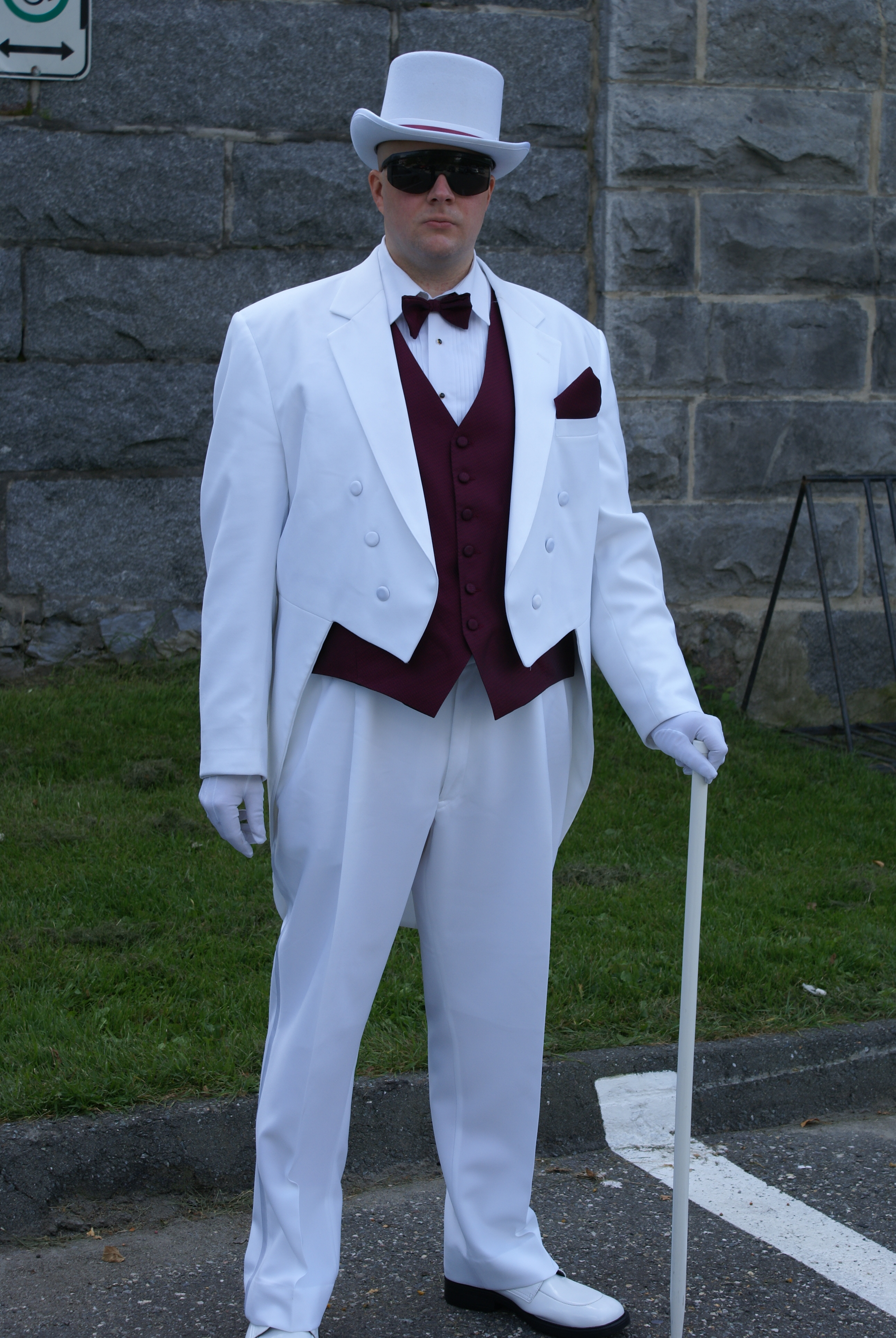 Wedding of my cousin in St-Patrick church in Magog, Quebec, Canada.